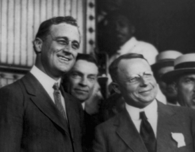 Franklin D. Roosevelt (left) and Governor James M. Cox (right) photographed on the latter's arrival in Washington during their 1920 U.S. presidential campaign National Photo Company Collection, Library of Congress MEDIUM: 1 photographic print.